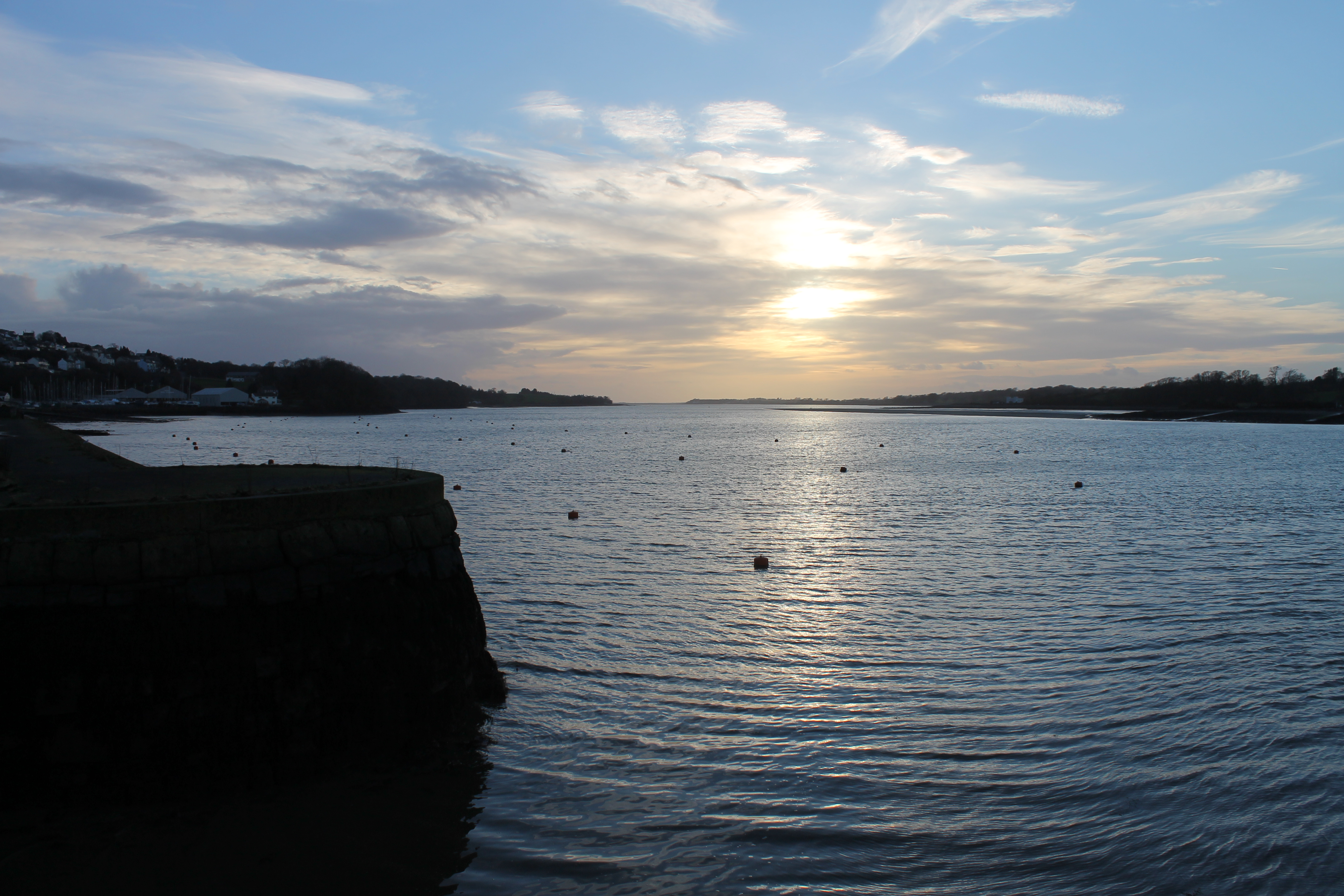 Sunset at Y Felinheli (Portdinorwig) dock, near Caernarfon, Gwynedd, North Wales.